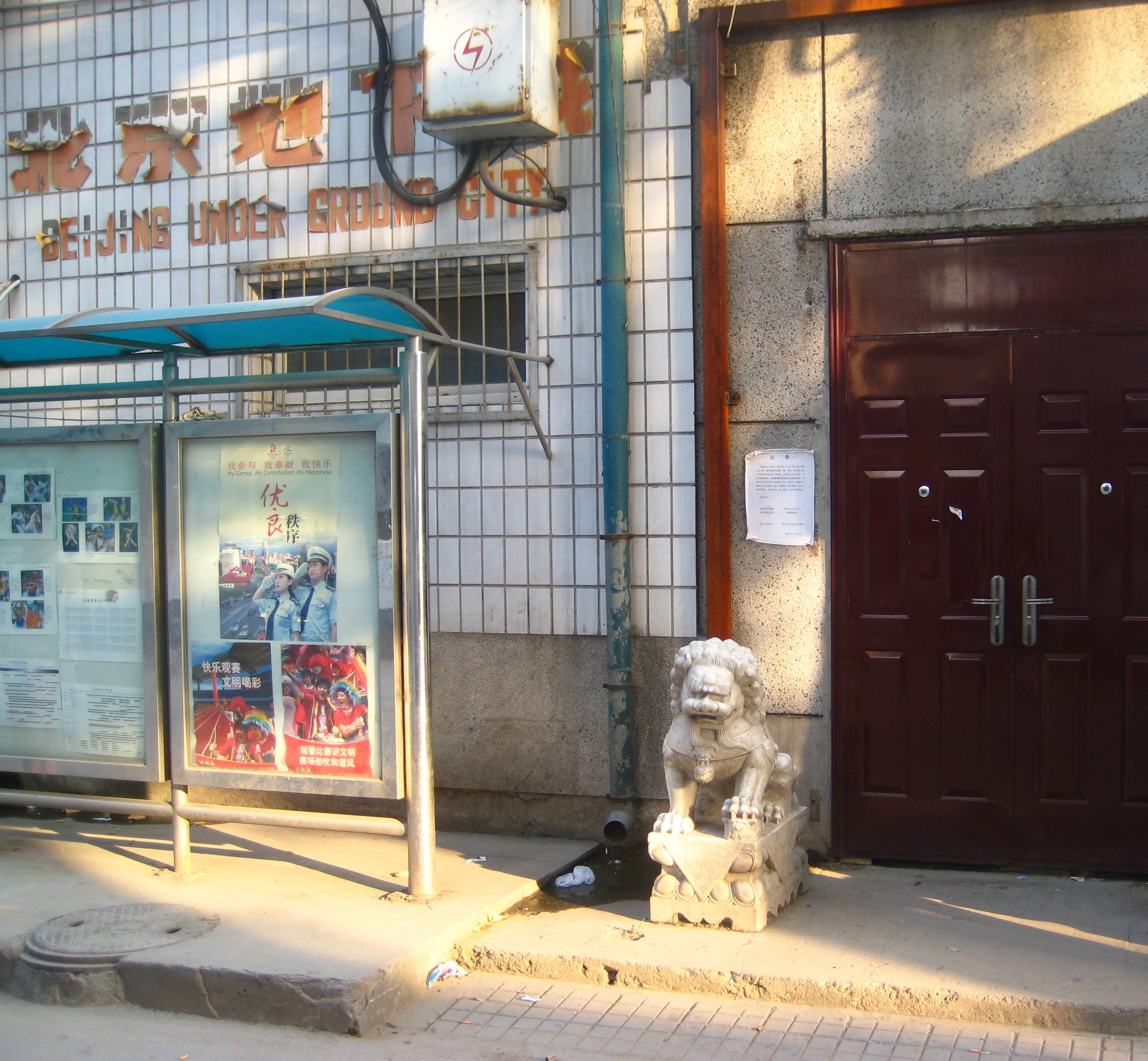 Picture of the Dixia Cheng entrance at Xidamochang Jie, Beijing, China, taken on July 13, 2008.